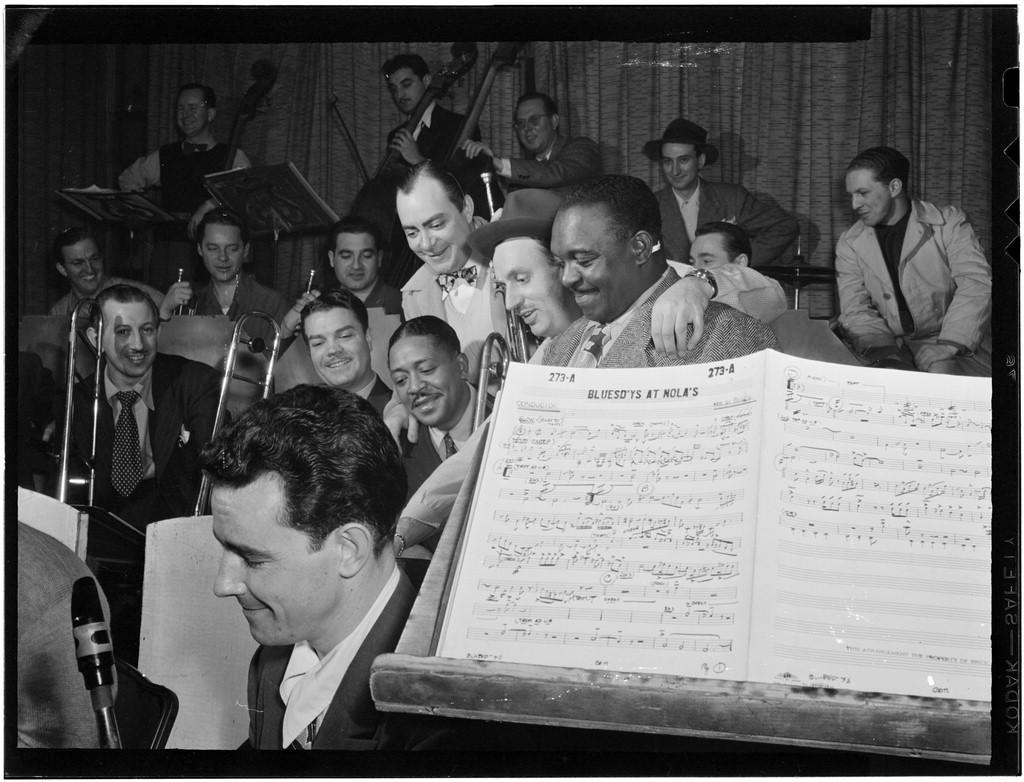 Gottlieb, William P., 1917-, photographer. [Portrait of Brick Fleagle, Snuffy Arthur, Lyle Murphy, Sandy Williams, Pee Wee Erwin, and Rex William Stewart, Nola's, New York, N.Y., ca. Feb. 1947] 1 negative : b&w ; 3 1/4 x 4 1/4 in. Caption from Down Beat: Tenorist Snuffy Arthur foreground next to music stand holding special tune Bluesd'ys at Nola's; (above him) trombonists Spud Murphy and Sandy Williams; trumpeter Pee Wee Erwin (above Sandy); Brick with hat on and (right) Rex Stewart. Notes: Gottlieb Collection Assignment No. 261 Reference print available in Music Division, Library of Congress. Purchase William P. Gottlieb Forms part of: William P. Gottlieb Collection (Library of Congress). In: "Nola Studios is meeting place for NYC musicians," Down Beat, v. 14, no. 5 (Feb. 26, 1947), p. 15. Subjects: Fleagle, Brick Arthur, Snuffy Murphy, Lyle, 1908- Williams, Sandy, 1906- Erwin, Pee Wee, 1913-1981 Stewart, Rex William, 1907-1967 Jazz musicians--1940-1950. Big bands--1940-1950. Nola's Format: Portrait photographs--1940-1950. Group portraits--1940-1950. Film negatives--1940-1950. Rights Info: Mr. Gottlieb has dedicated these works to the public domain, but rights of privacy and publicity may apply. Repository: (negative) Library of Congress, Prints & Photographs Division, Washington D.C. 20540 USA, (reference print) Library of Congress, Music Division, Washington D.C. 20540 USA, Part Of: William P. Gottlieb Collection (DLC) 99-401005 General information about the Gottlieb Collection is available at Persistent URL: Call Number: LC-GLB13- 0659 This work is from the William P. Gottlieb collection at the Library of Congress. Rights and restrictions. In accordance with the wishes of William Gottlieb, the photographs in this collection entered into the public domain on February 16, 2010.